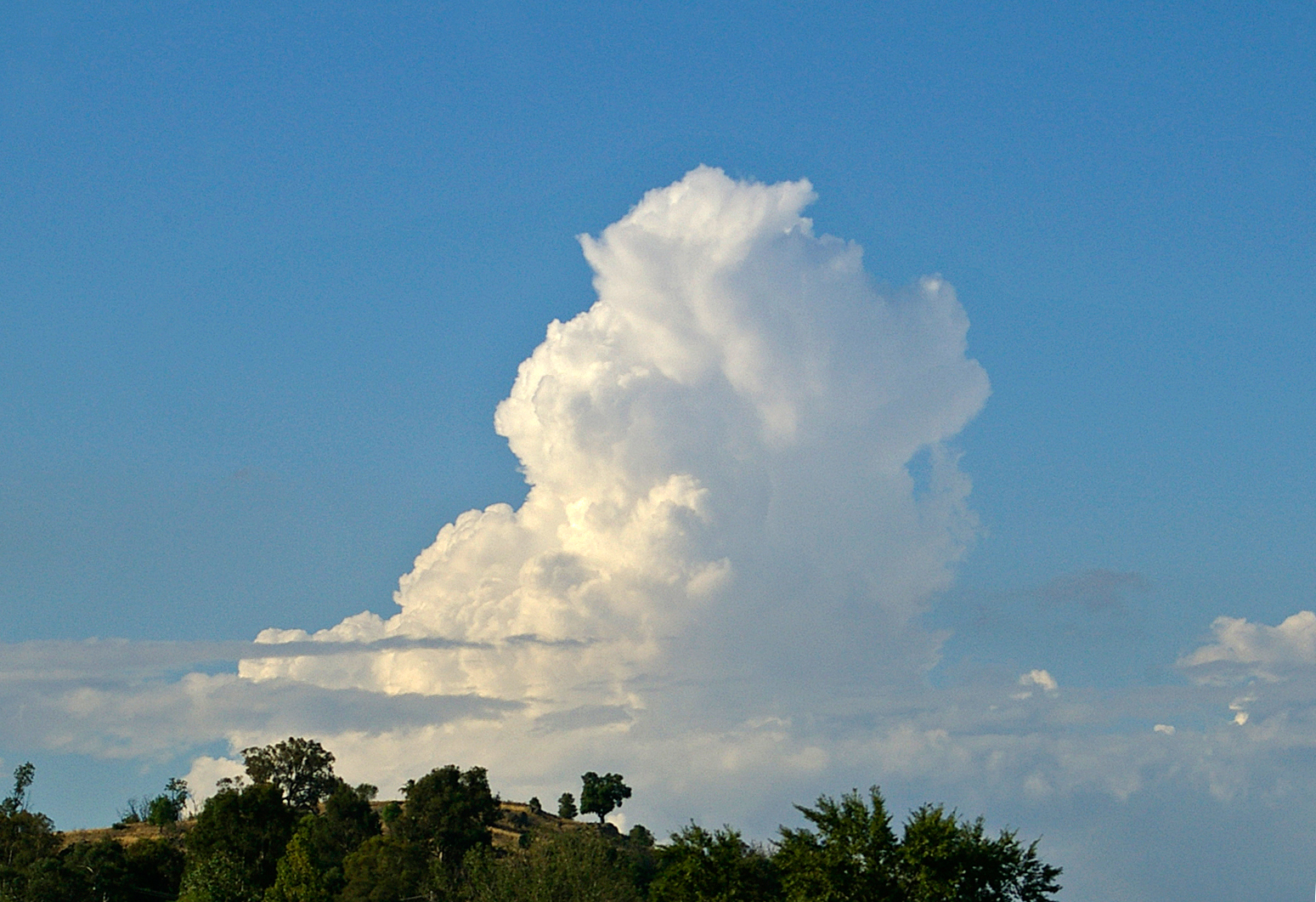 A collapsing Cumulus congestus which is known as a turkey tower. Because this photograph concerns privacy since this was taken on a private property, only an approximate location is provided: Wagga Wagga, New South Wales, Australia